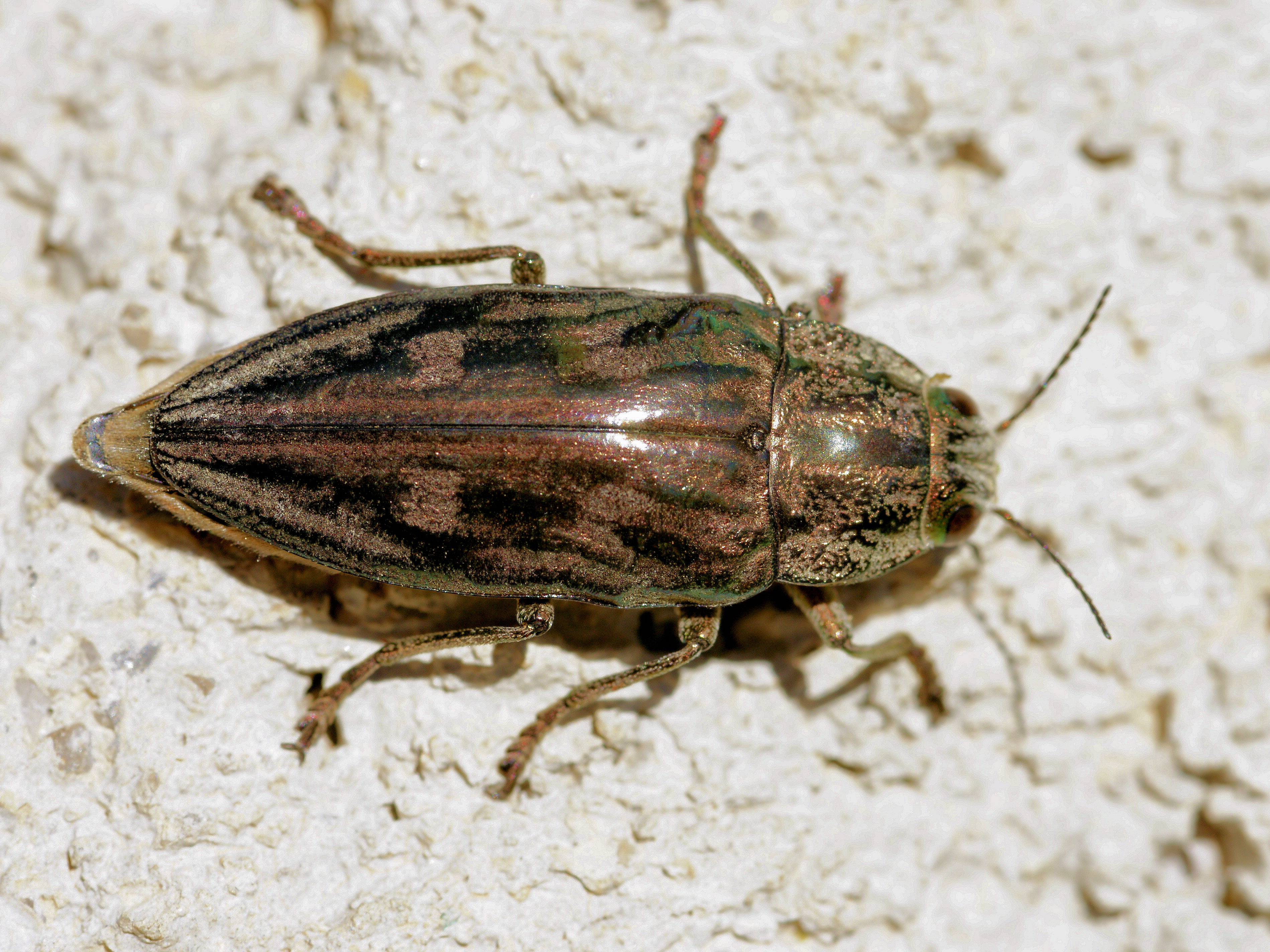 Flatheaded pine borer close to Cala del Moro, Mallorca.